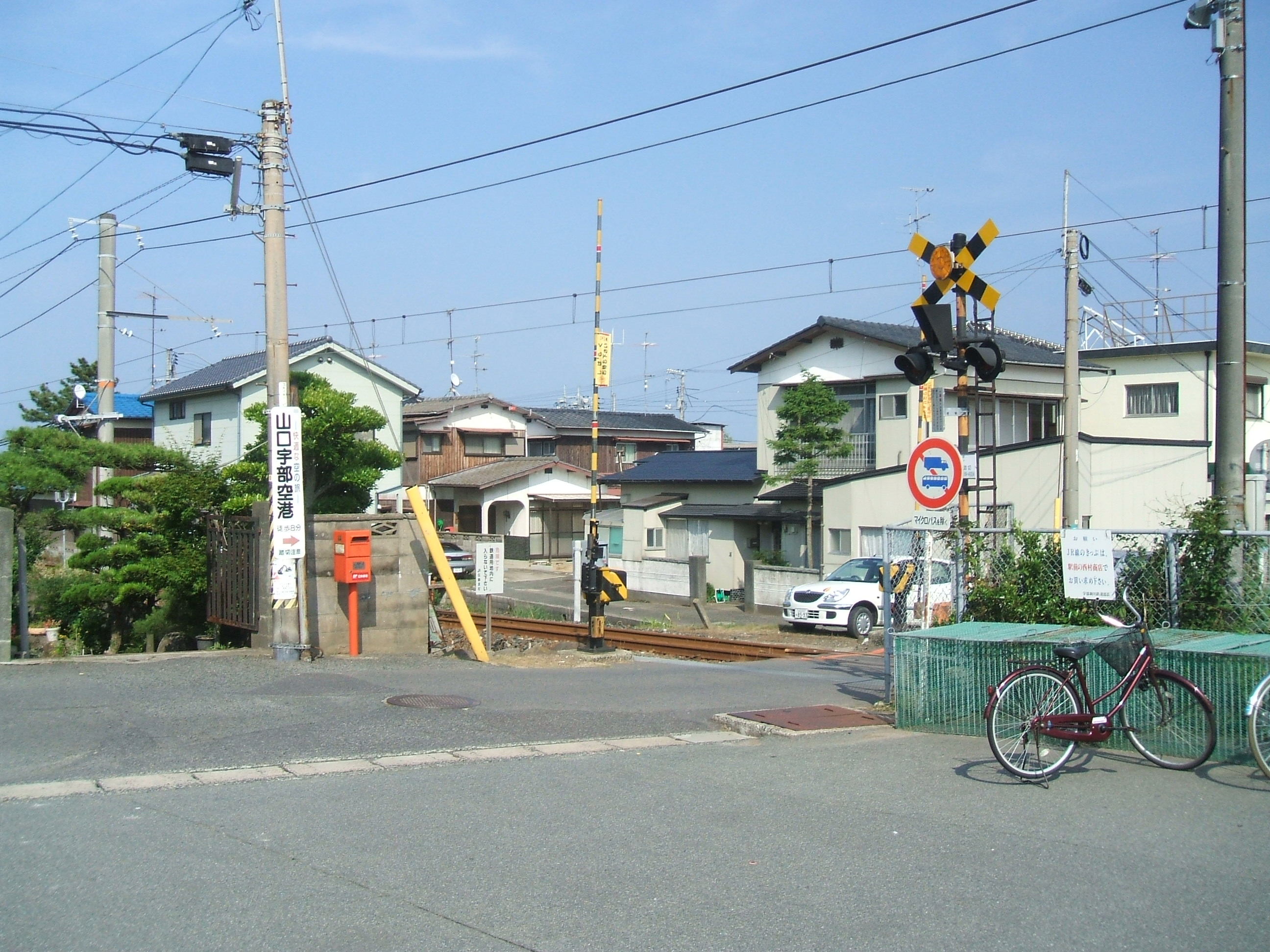 Level Crossing nearby Kusae station (Ube-city, Yamaguchi-pref., Japan)